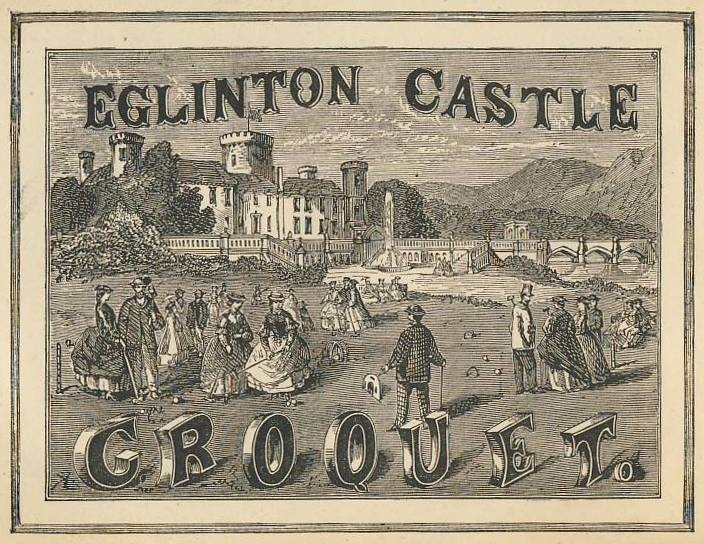 Illustration from the book depicting a croquet game at Eglinton Castle, Kilwinning, Ayrshire (Scotland).